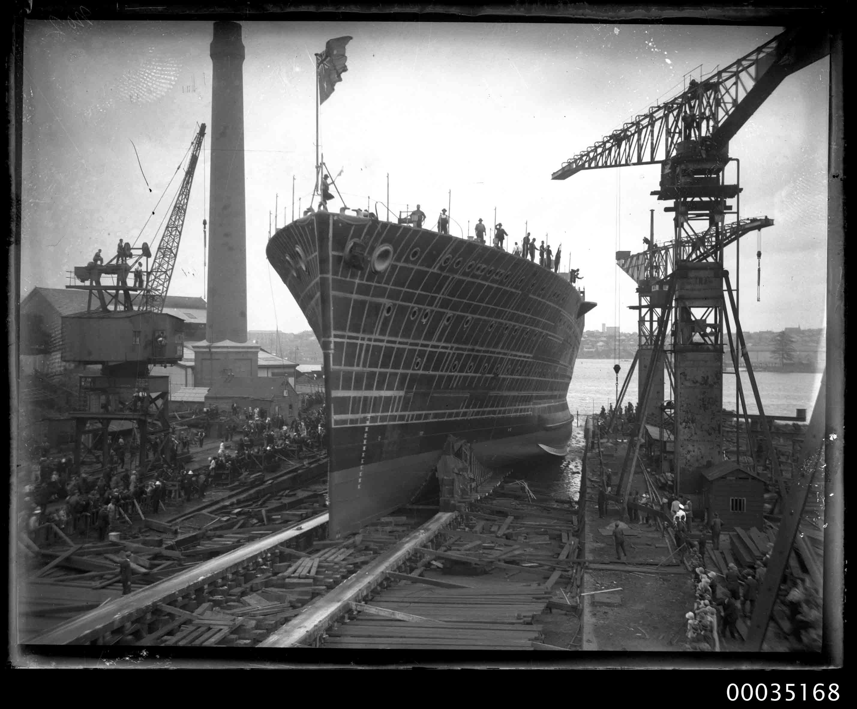 This photograph depicts the launch of the Royal Australian Navy's first seaplane carrier HMAS ALBATROSS I on 23 February 1928 at Cockatoo Island Dockyard in Sydney. This photo is part of the Australian National Maritime Museum’s Samuel J. Hood Studio collection. Sam Hood (1872-1953) was a Sydney photographer with a passion for ships. His 60-year career spanned the romantic age of sail and two world wars. The photos in the collection were taken mainly in Sydney and Newcastle during the first half of the 20th century. The ANMM undertakes research and accepts public comments that enhance the information we hold about images in our collection. This record has been updated accordingly. Photographer: Samuel J. Hood Studio Collection Object no. 00035168